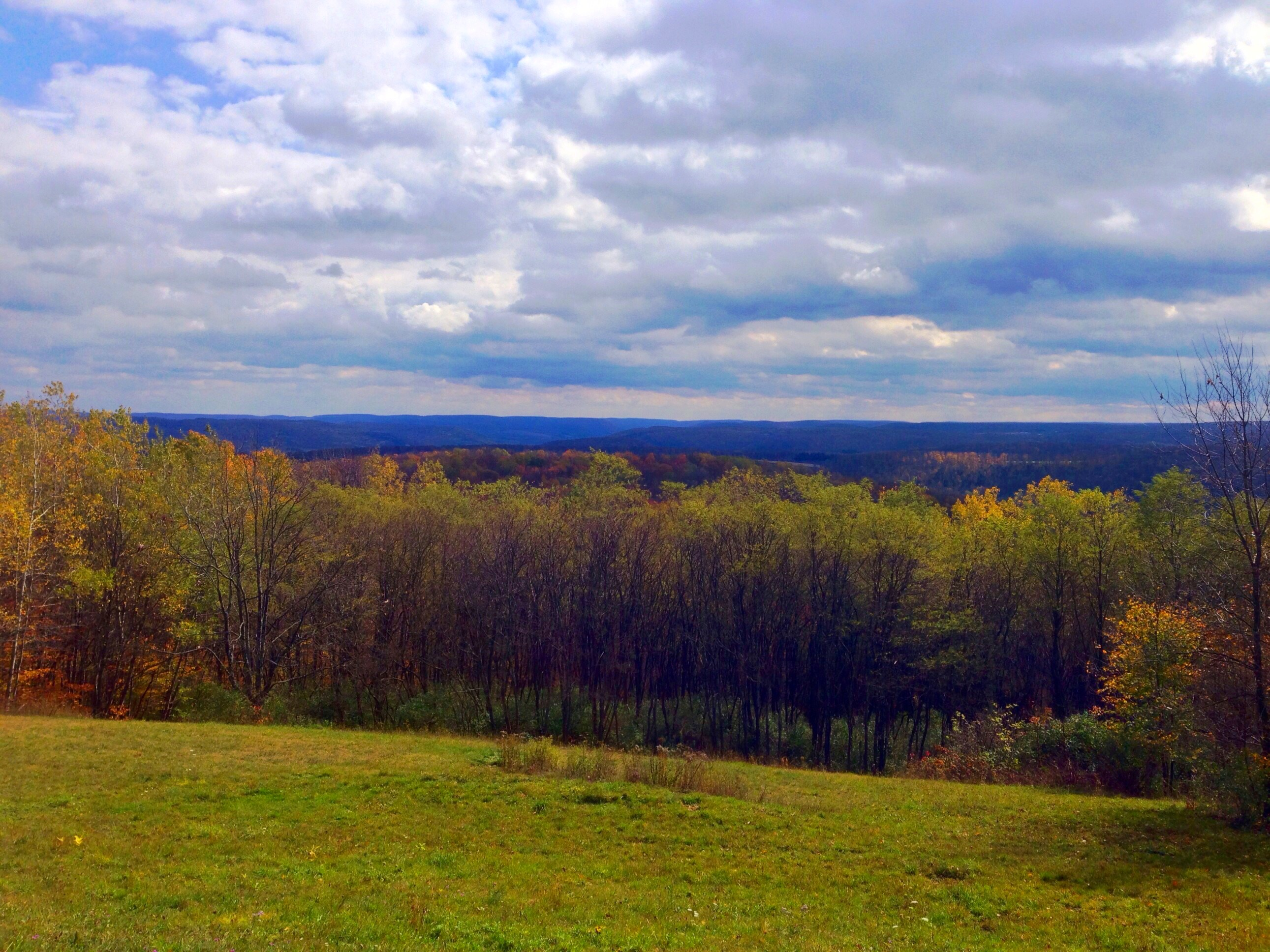 Hills in Wellsville, NY